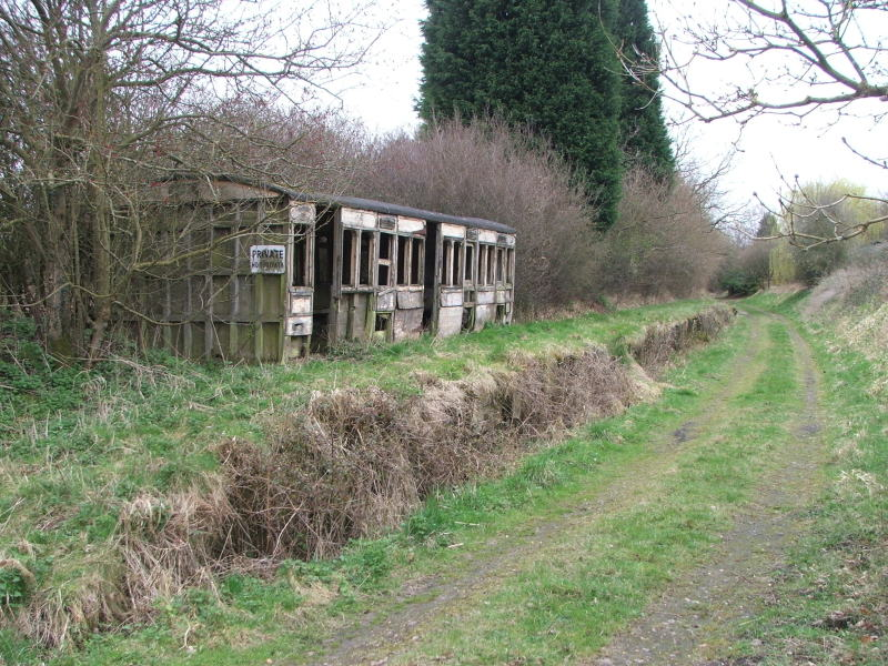 Ashdon Halt railway station in March 2009. Photograph taken by User:Efficacy on 31 Mar 2009.